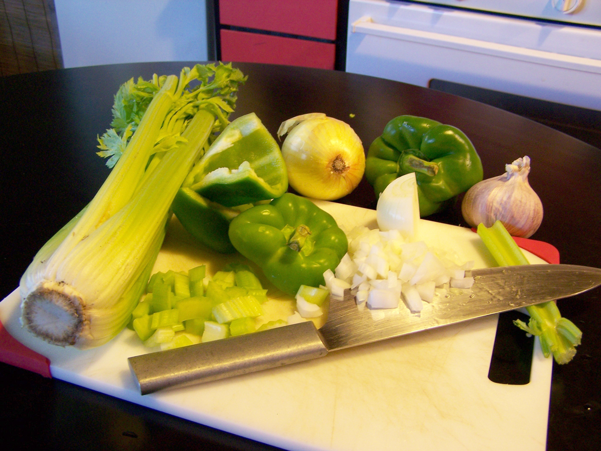 A photo of the Cajun Holy Trinity (used in cooking Cajun food) of onion, bell peppers and celery.